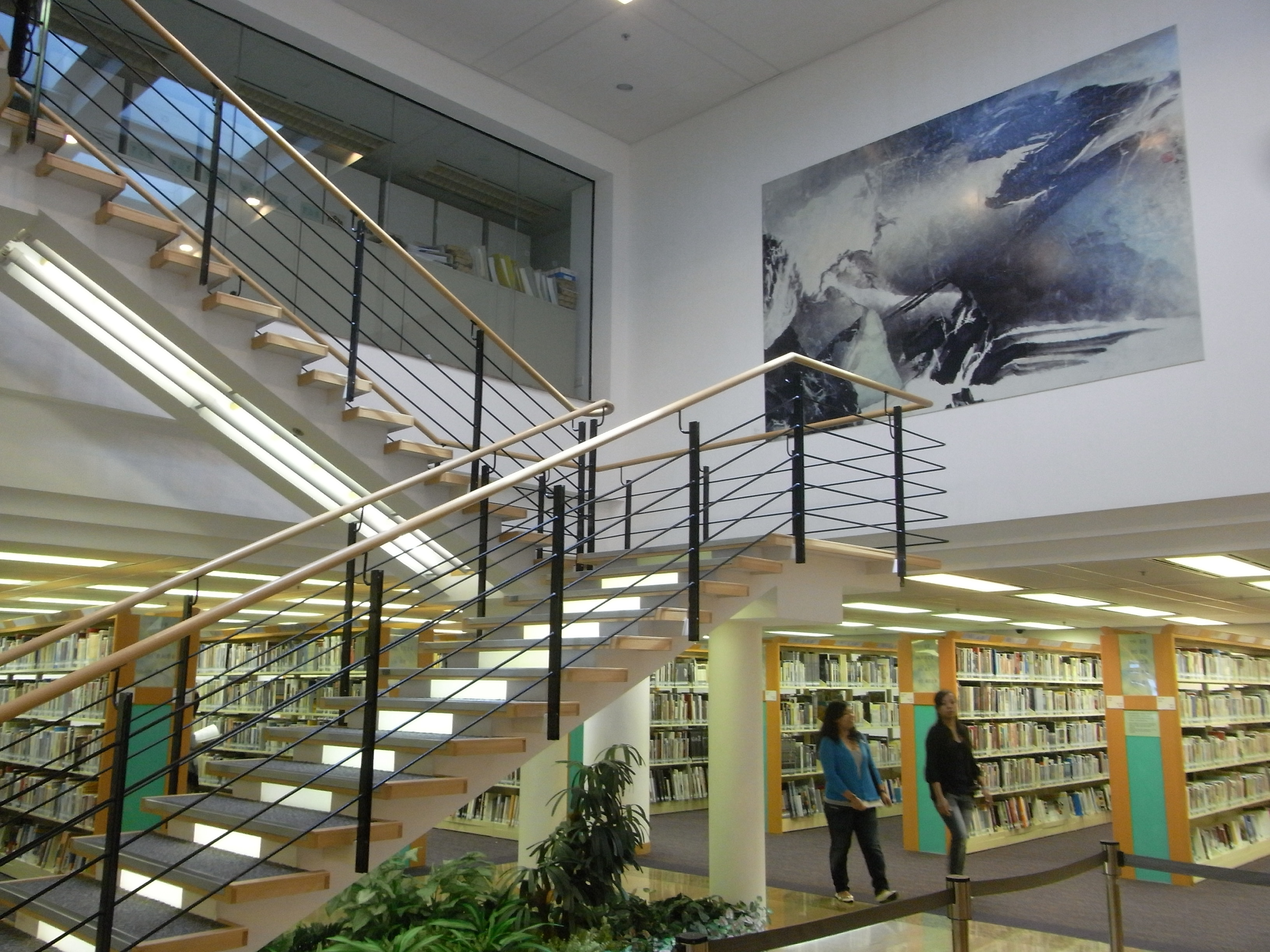 銅鑼灣香港中央圖書館